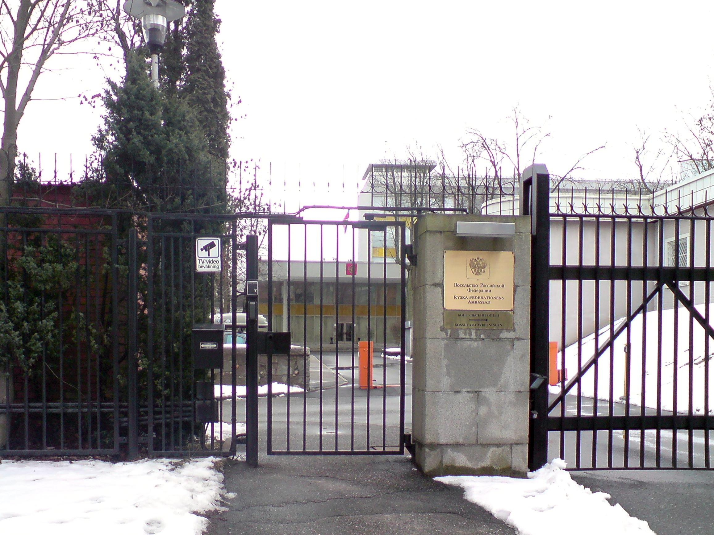 The entrance to the Russian embassy in Stockholm, Sweden.